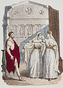 Bellini-Norma-original cast-detail